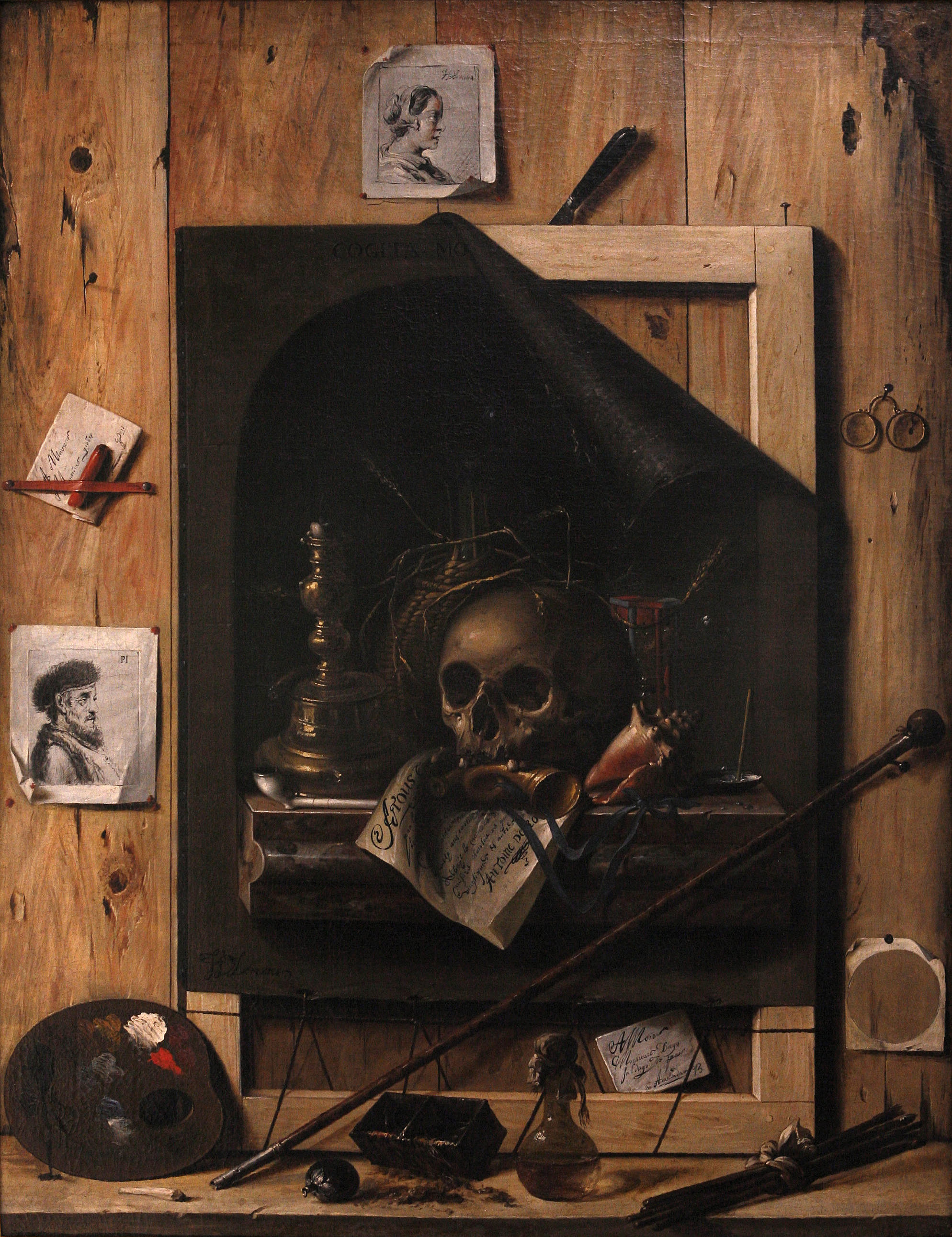 Vanity and trompe-l'œil.